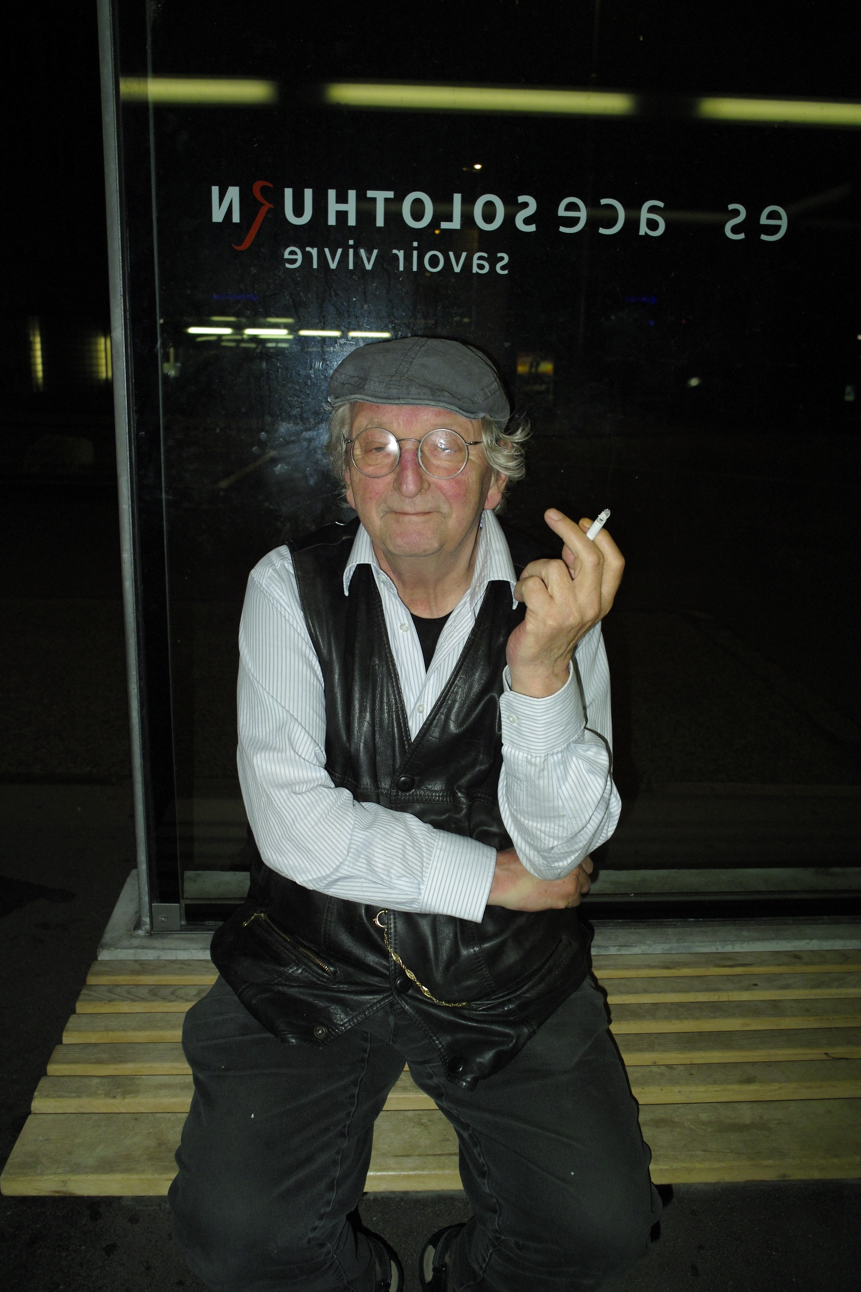 Swiss writer Peter Bichsel waiting for the bus in Solothurn, Switzerland. Photo by Gestumblindi, taken with Bichsel's kind permission.